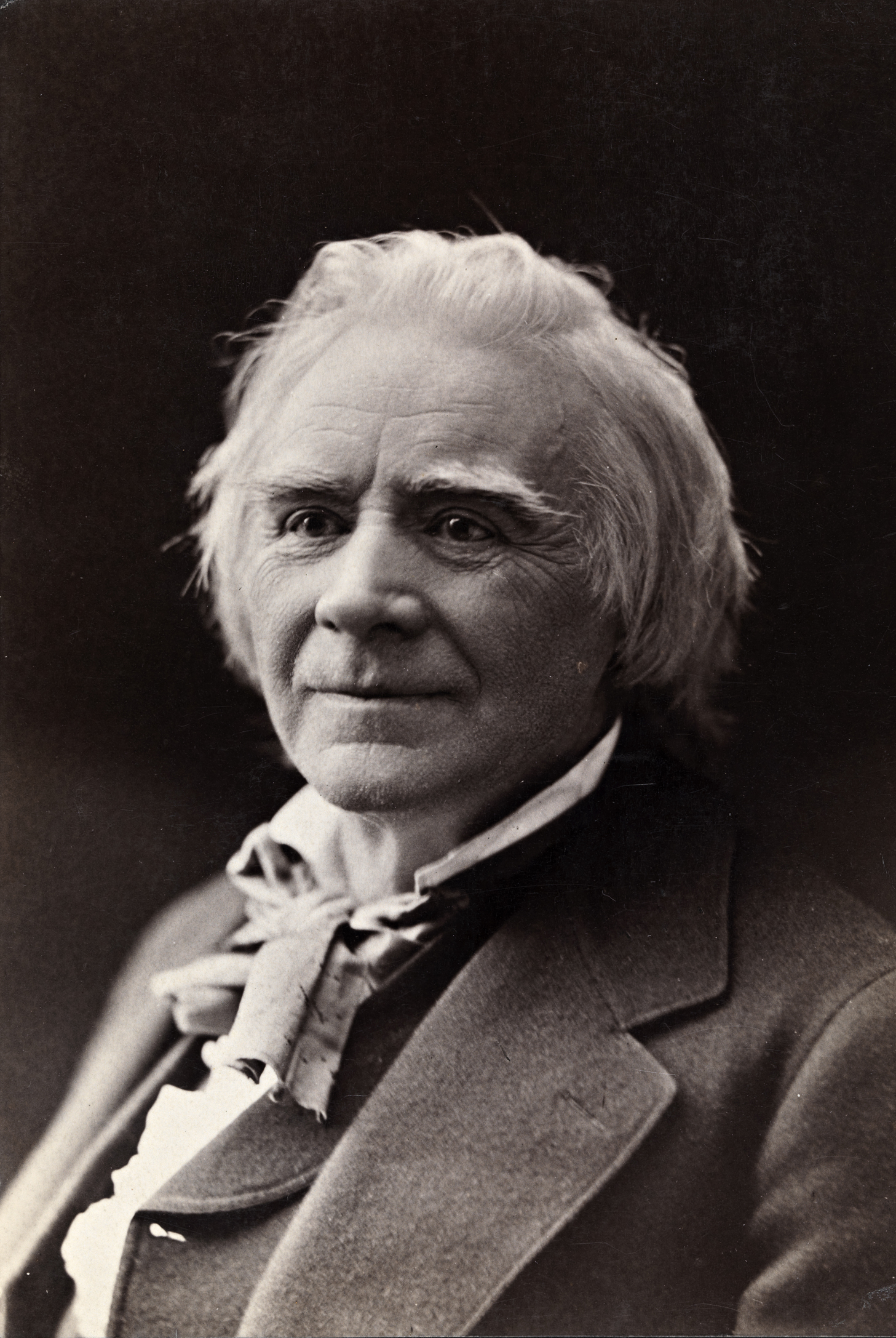 Artist: Abraham Bogardus (1822-1908) Date/place: unknown, New York/USA Subject: Ole Bull Medium: photographic positive, cabinet card Notes: none Persistent URL: NA Title number: NA Original reference: blds_03343 Original found at [#// The National Library of Norway], digital reproduction by their picture collection.